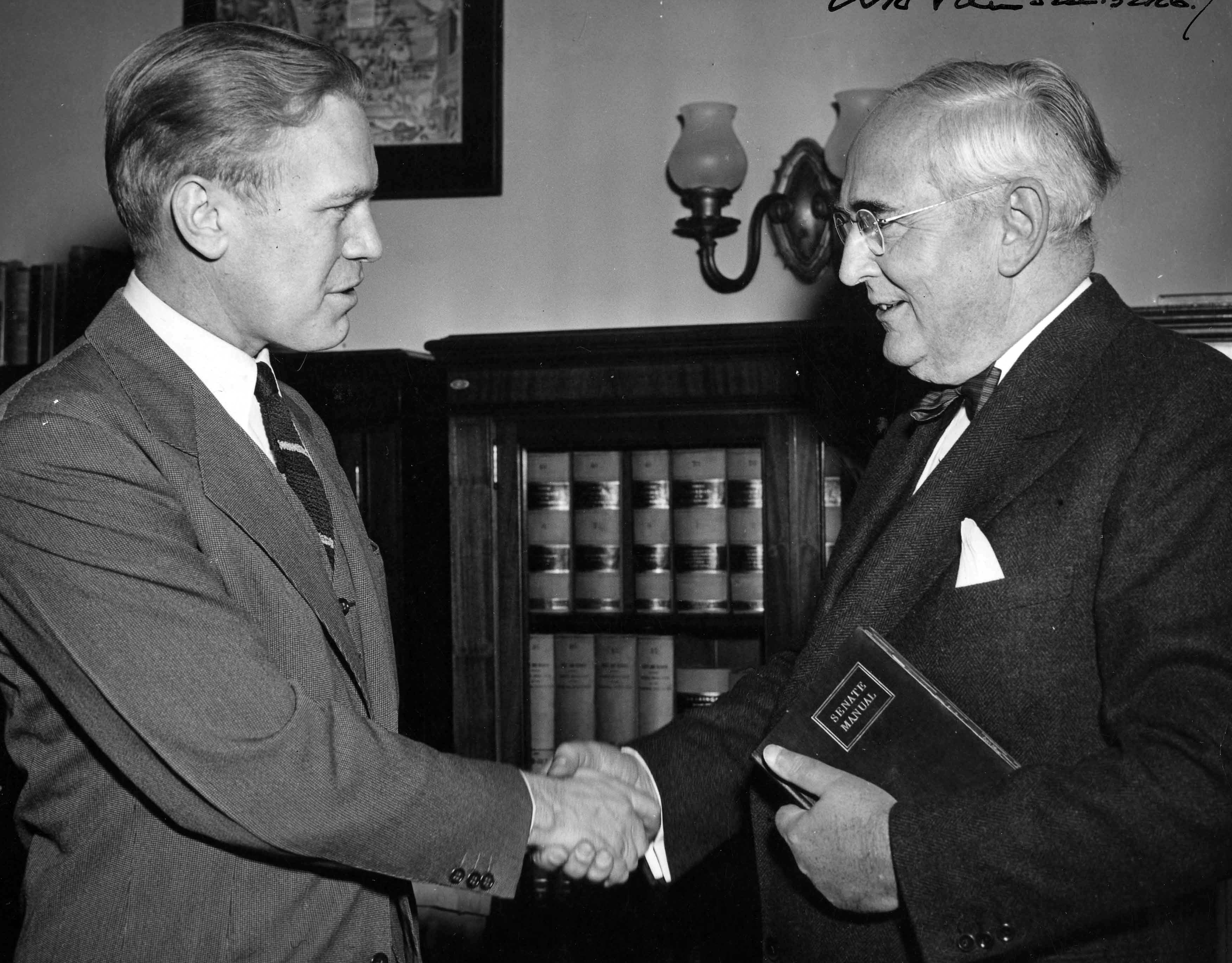 Michigan Senator Arthur Vandenberg welcomes new Congressman Gerald R. Ford Jr., to Washington DC. 1949.